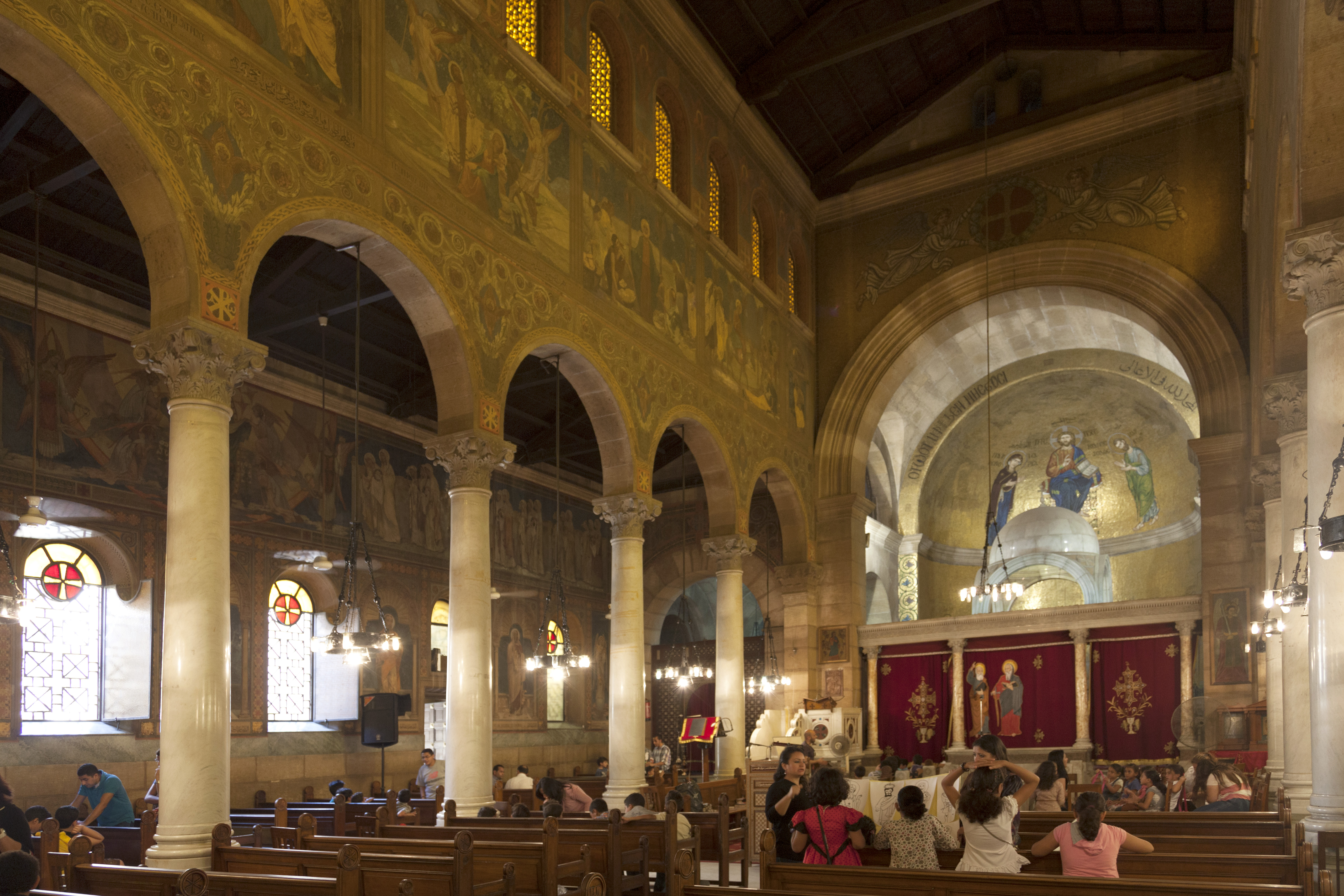 Nave of the Church of SS. Peter and Paul, al-Boutrosiya, al-Abbasiya, Cairo